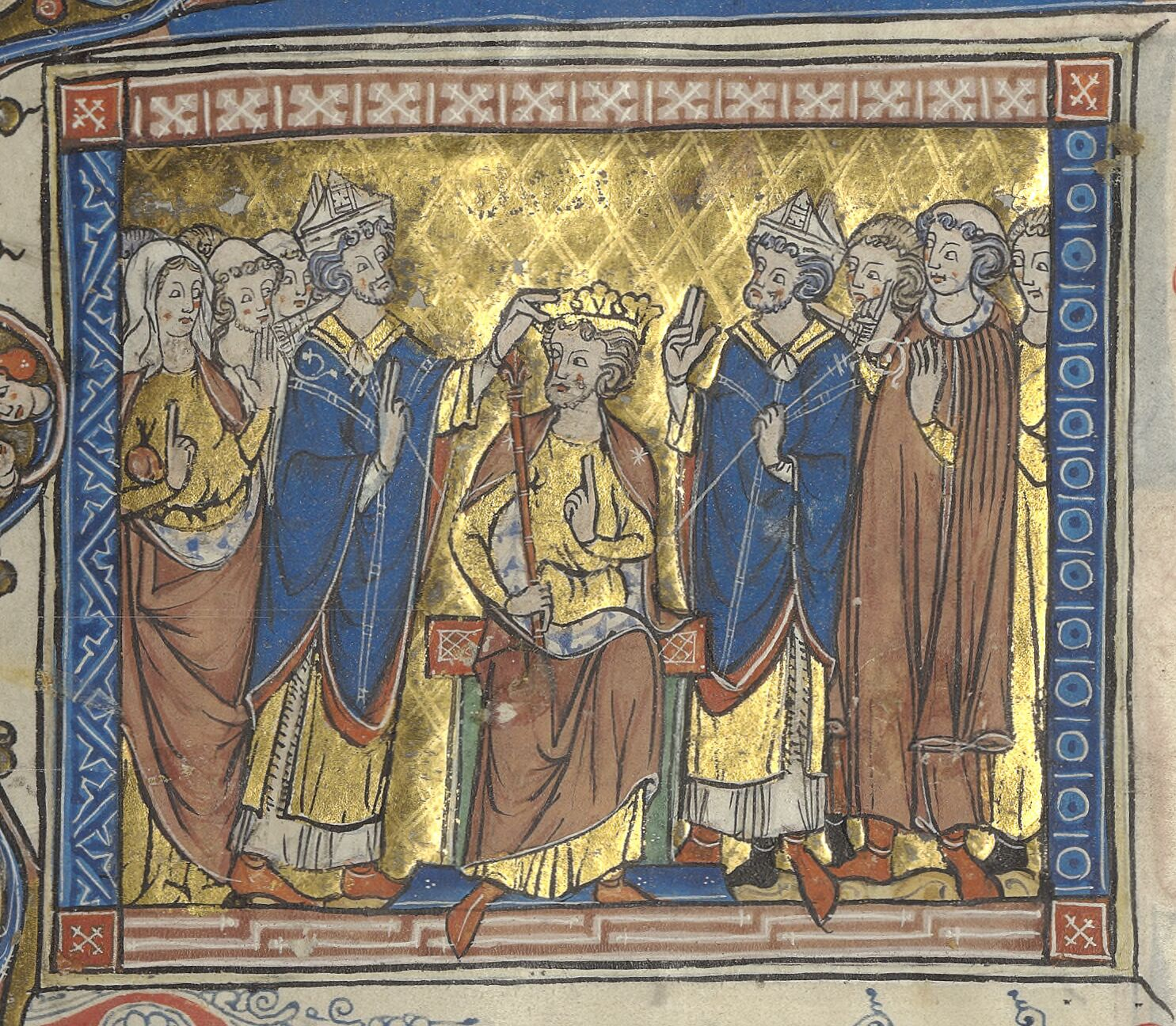 Miniature: coronation of Baldwin I